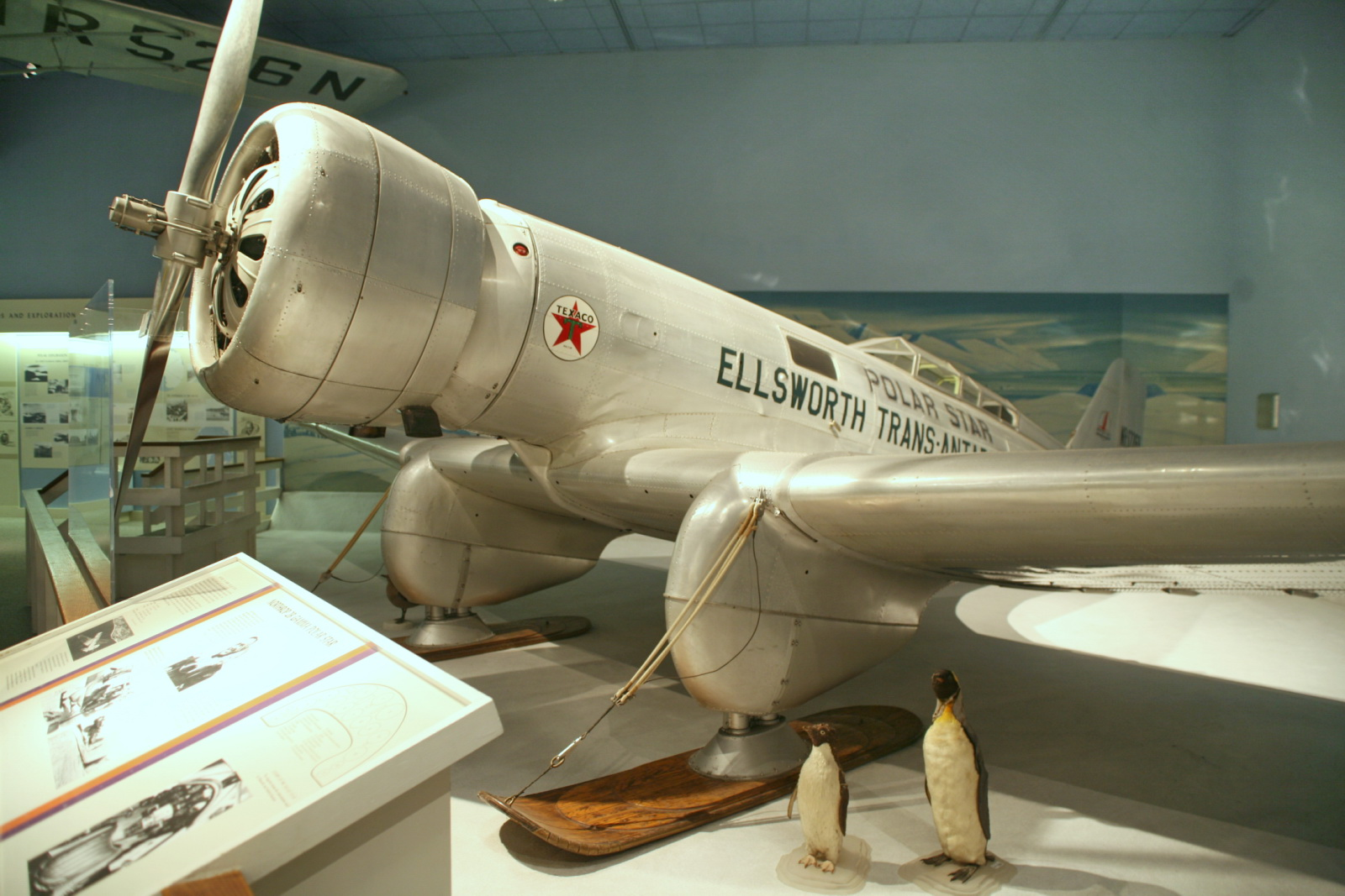 The "Polar Star", a Northrop 2B Gamma aircraft. Used during several of Lincoln Ellsworth's antarctic expeditions. In 1935, pilot Herbert Hollick-Kenyon and Lincoln Ellsworth crossed the antarctic continent in this aircraft. Today, the plane resides in the Smithsonian National Air and Space Museum.